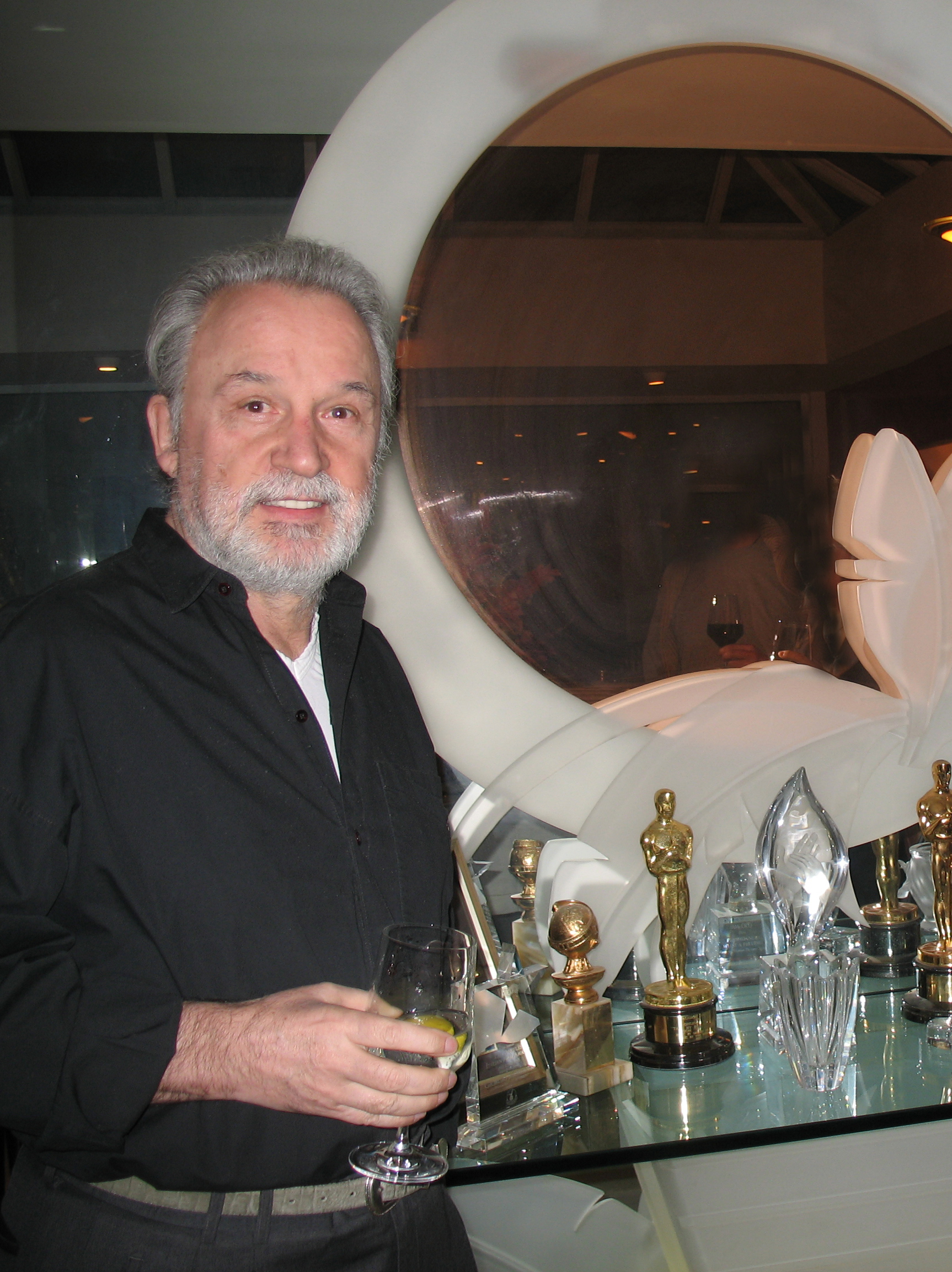 Portrait of Giorgio Moroder, a music composer, with some of his awards.